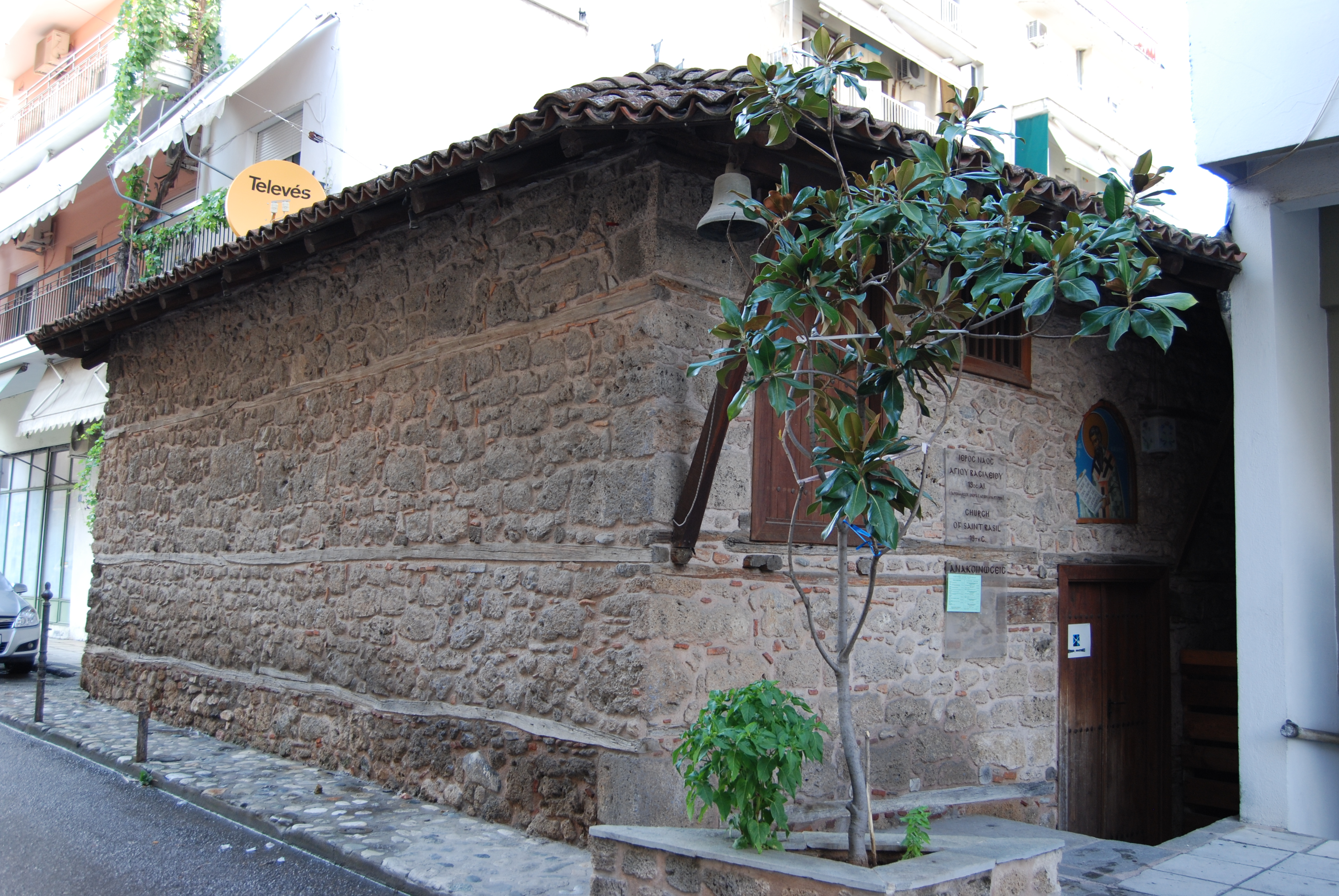 St. Vasilios, Ber